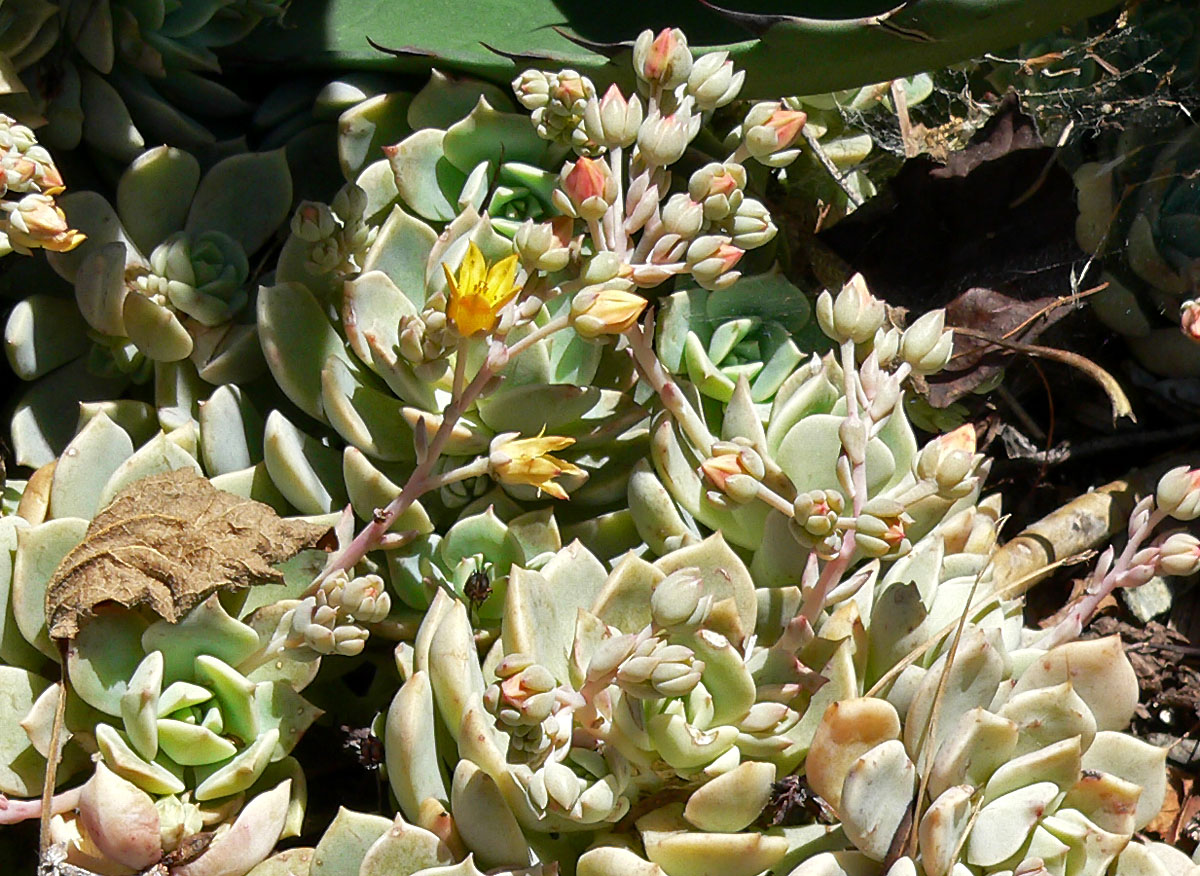 Echeveria multicaulis at the University of California Botanical Garden, Berkeley, California